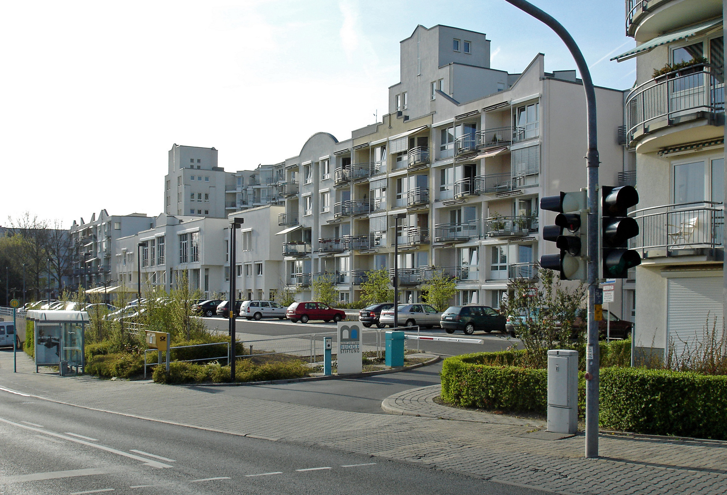 Entrance to Henry and Emma Budge Retirement Home in the borrough of Seckbach in Frankfurt, Hesse, Germany